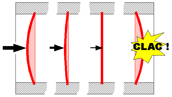 spring with two stable states